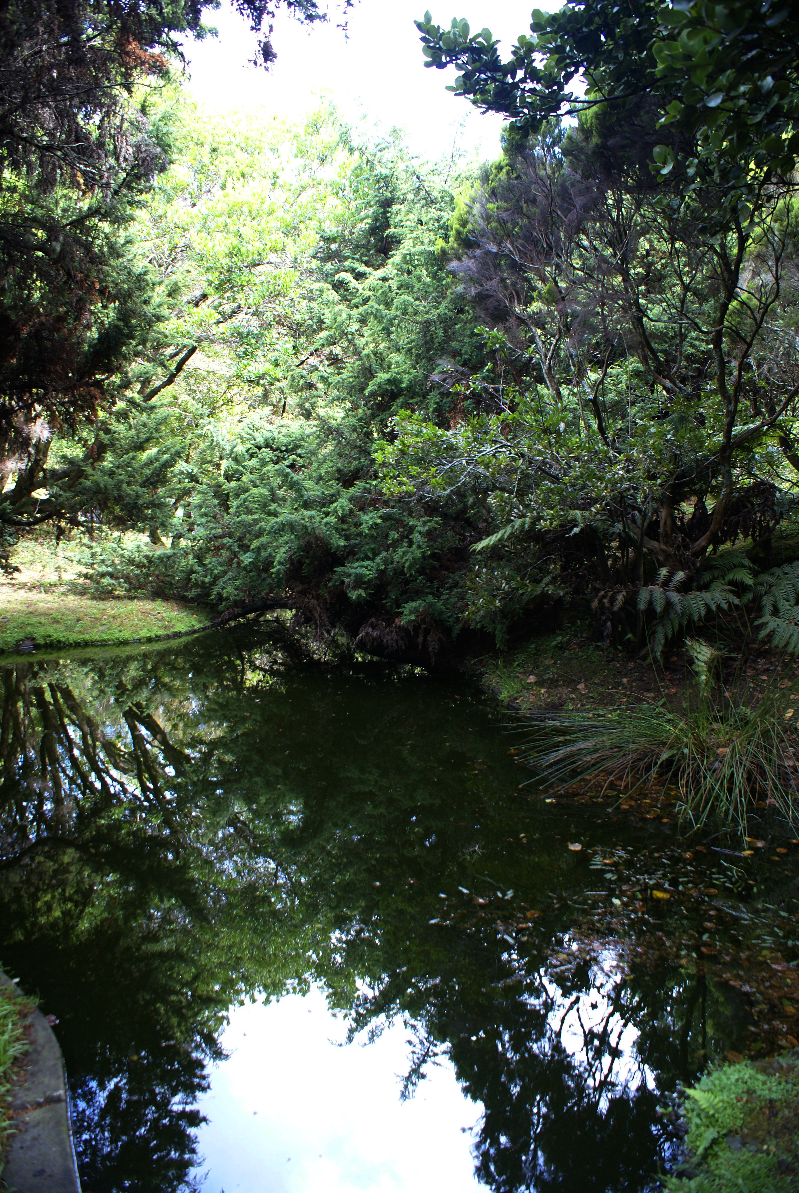 Jardim Botânico do Faial, 2 concelho da Horta, ilha do Faial, Açores, Portugal